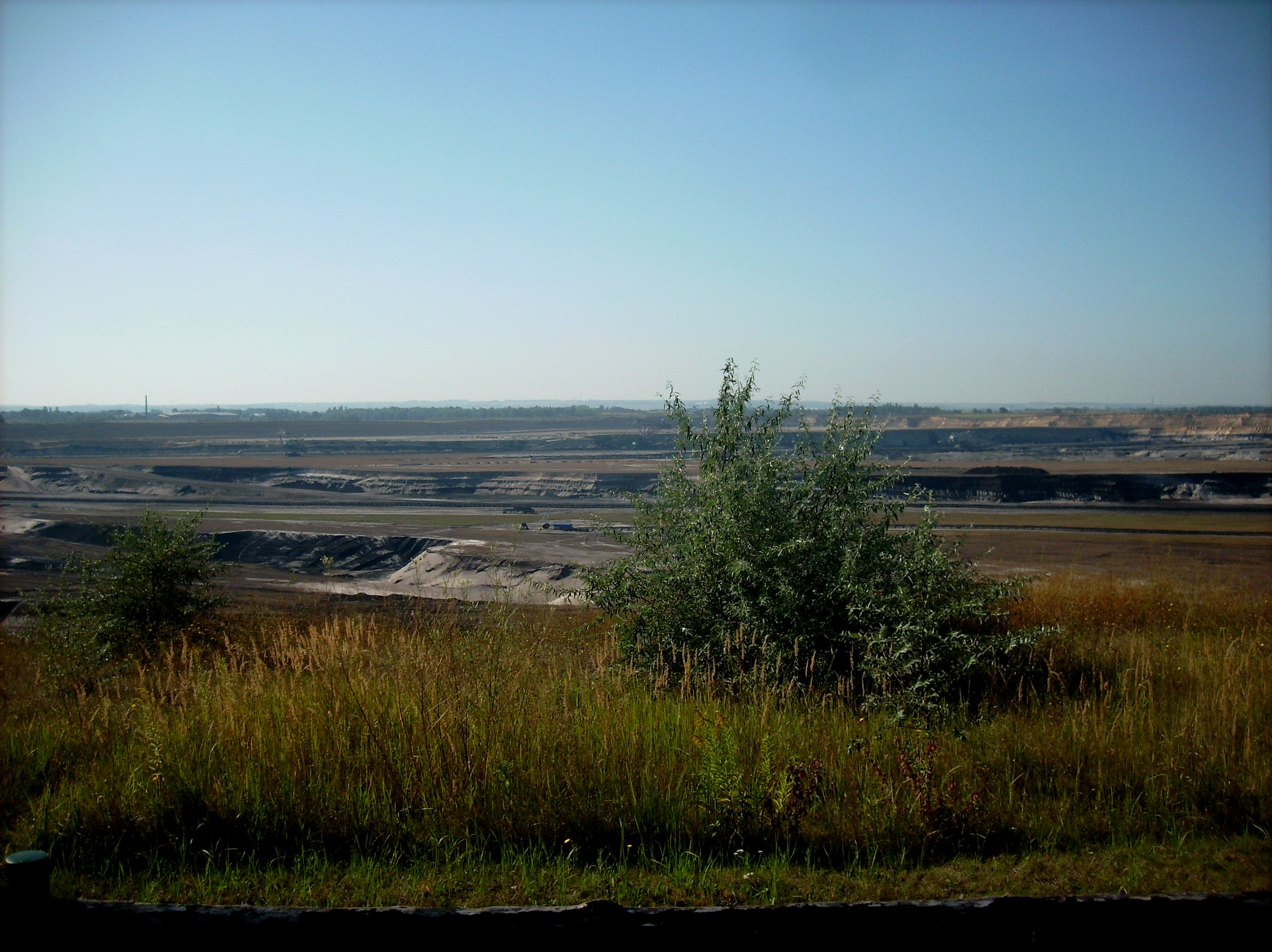 View of the Profen opencast mine from Schwerzau vantage point (Elsteraue, disrict of Burgenlandkreis, Saxony-Anhalt)